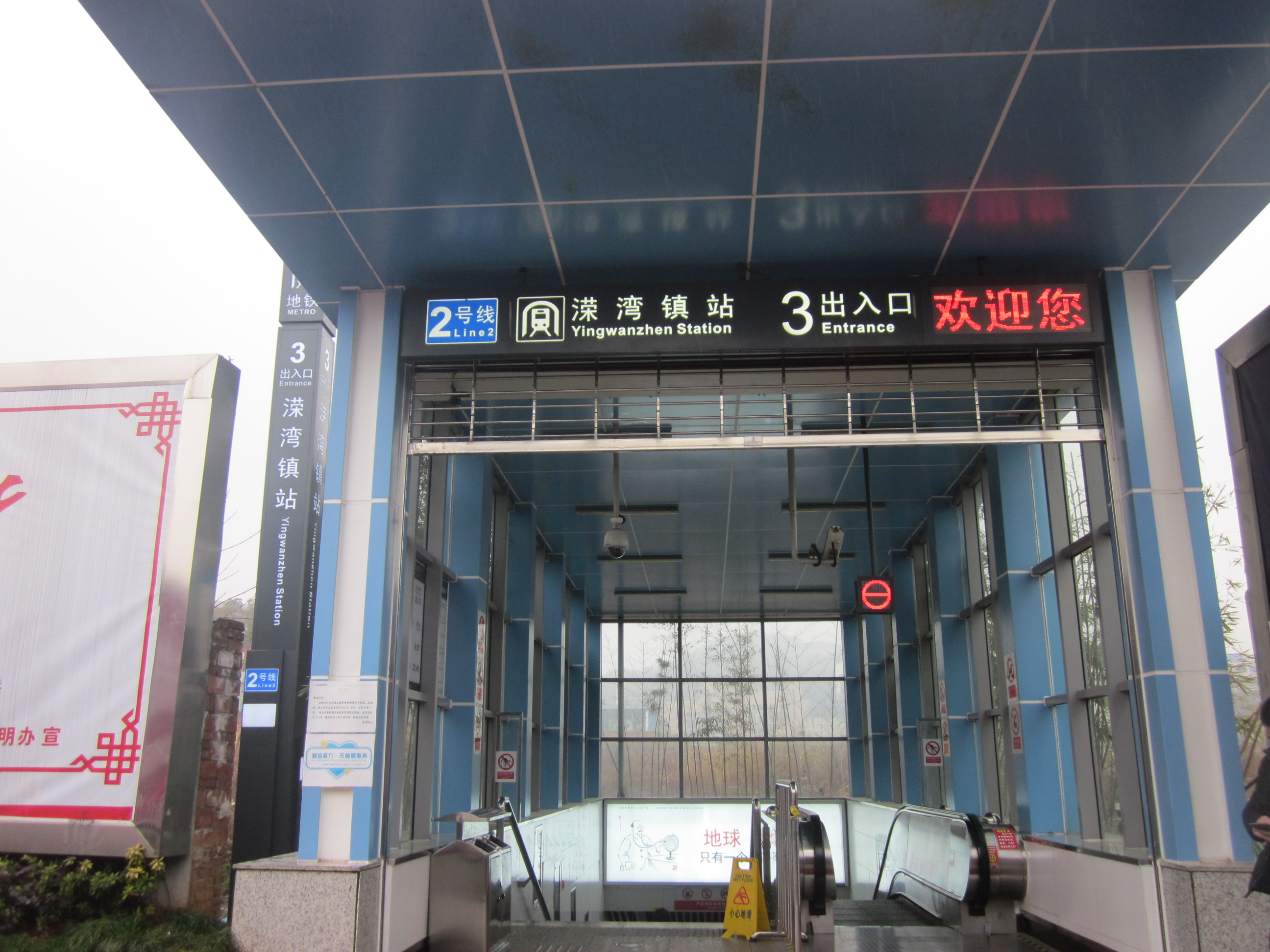 Yingwanzhen Station is a subway station in Changsha, Hunan, China, operated by the Changsha subway operator Changsha Metro.